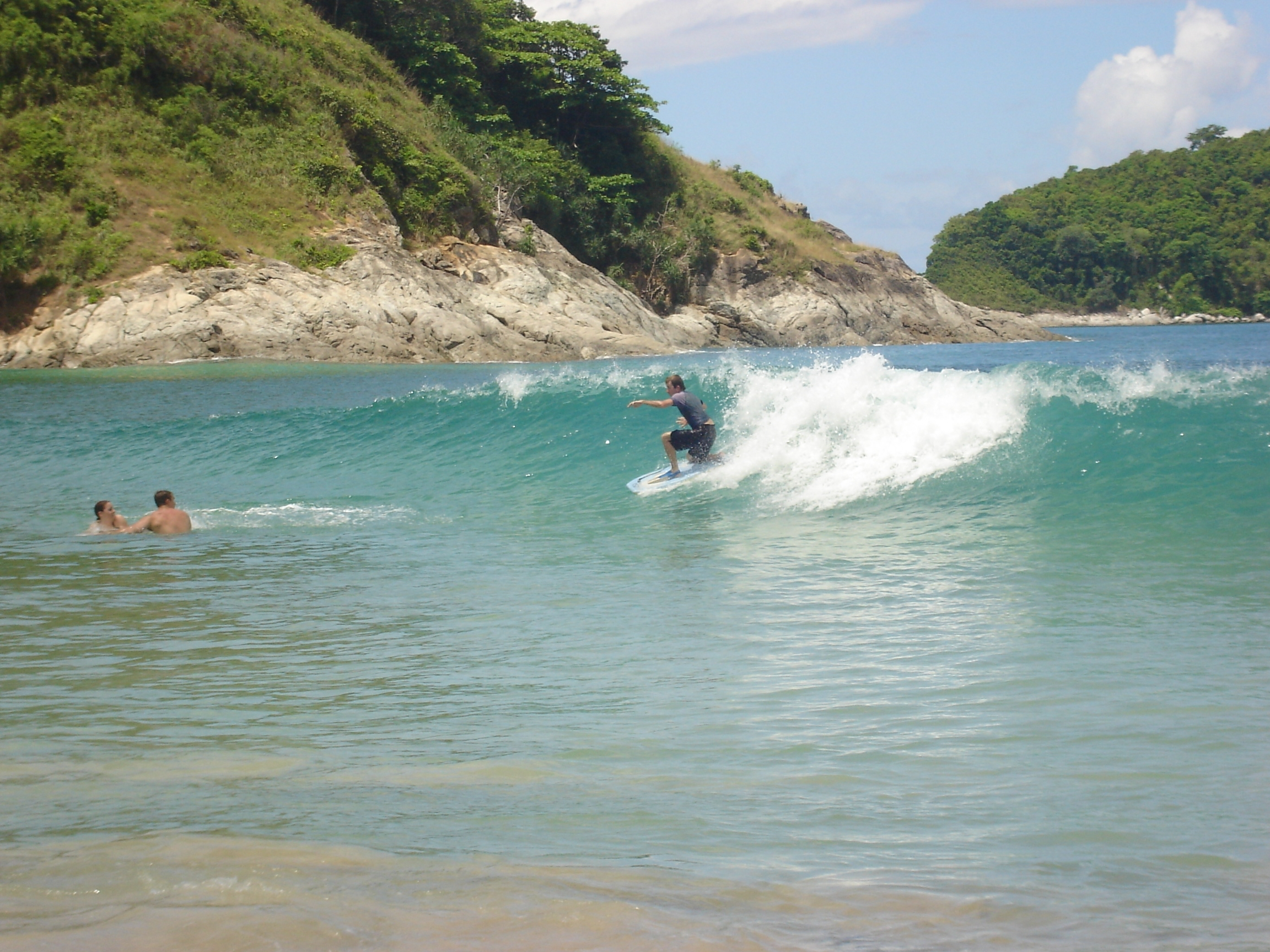 dk bodyboarder